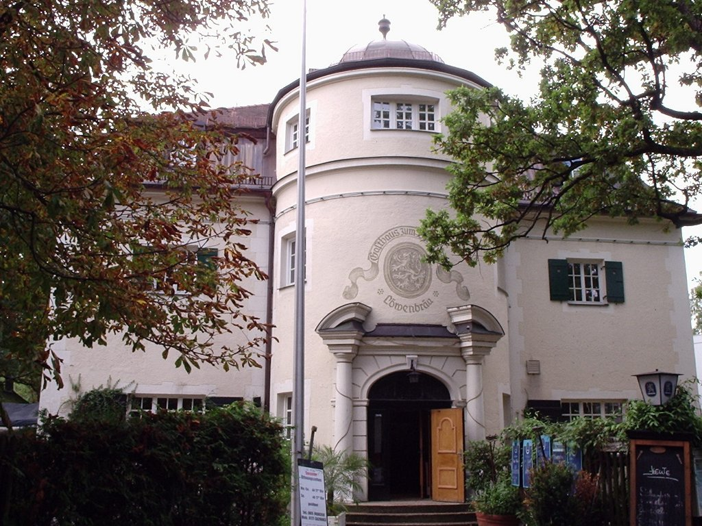 Inn "Gasthaus zum Hirschen" in Solln, Munich, Germany. Built 1901 by Gustav Schellenberger.